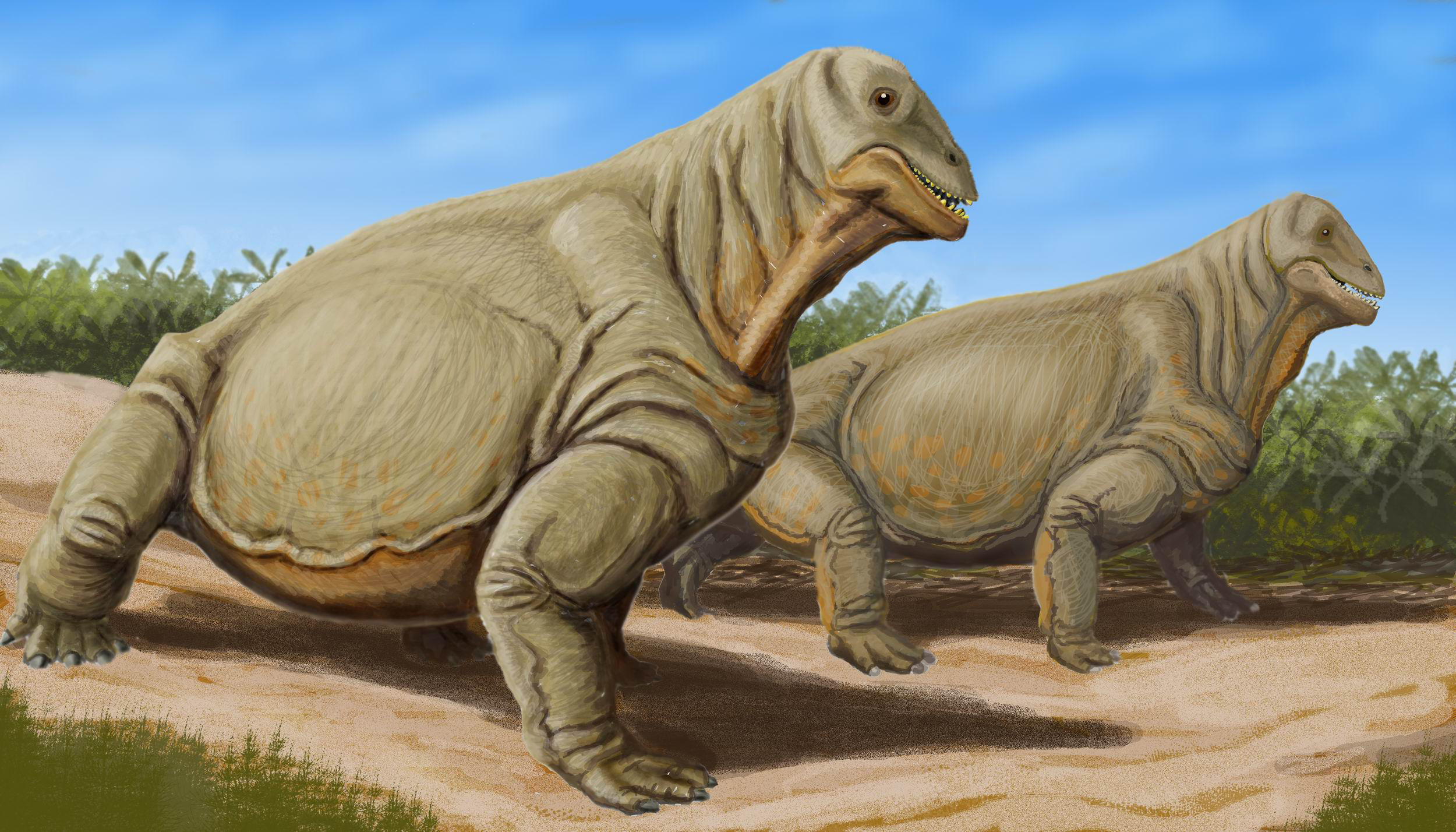 Moschops capensis - Middle Permian of South Africa. Based on skeleton from AMNH.